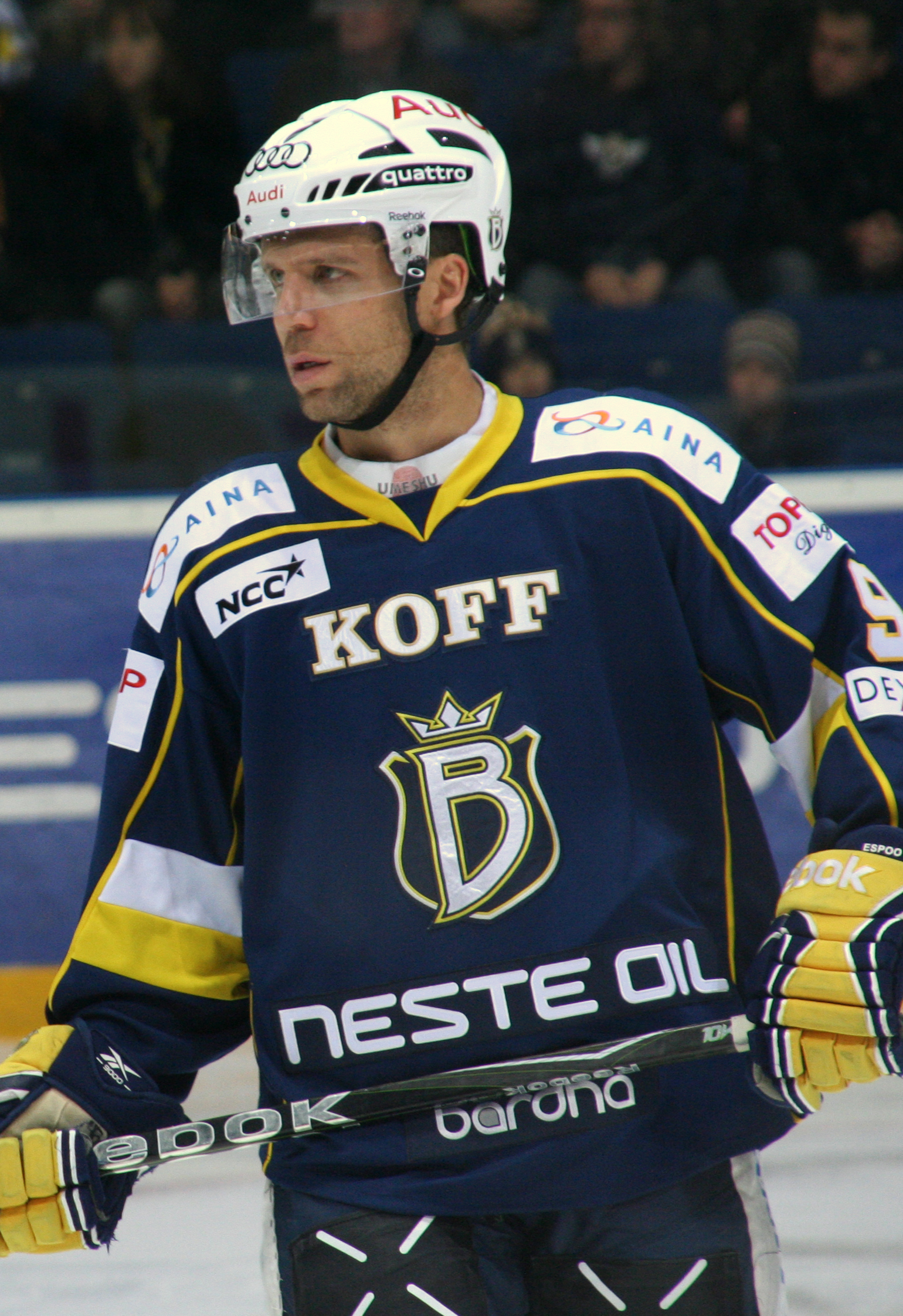 Ice Hockey Team Espoo Blues' Defender #9 Dale Clarke